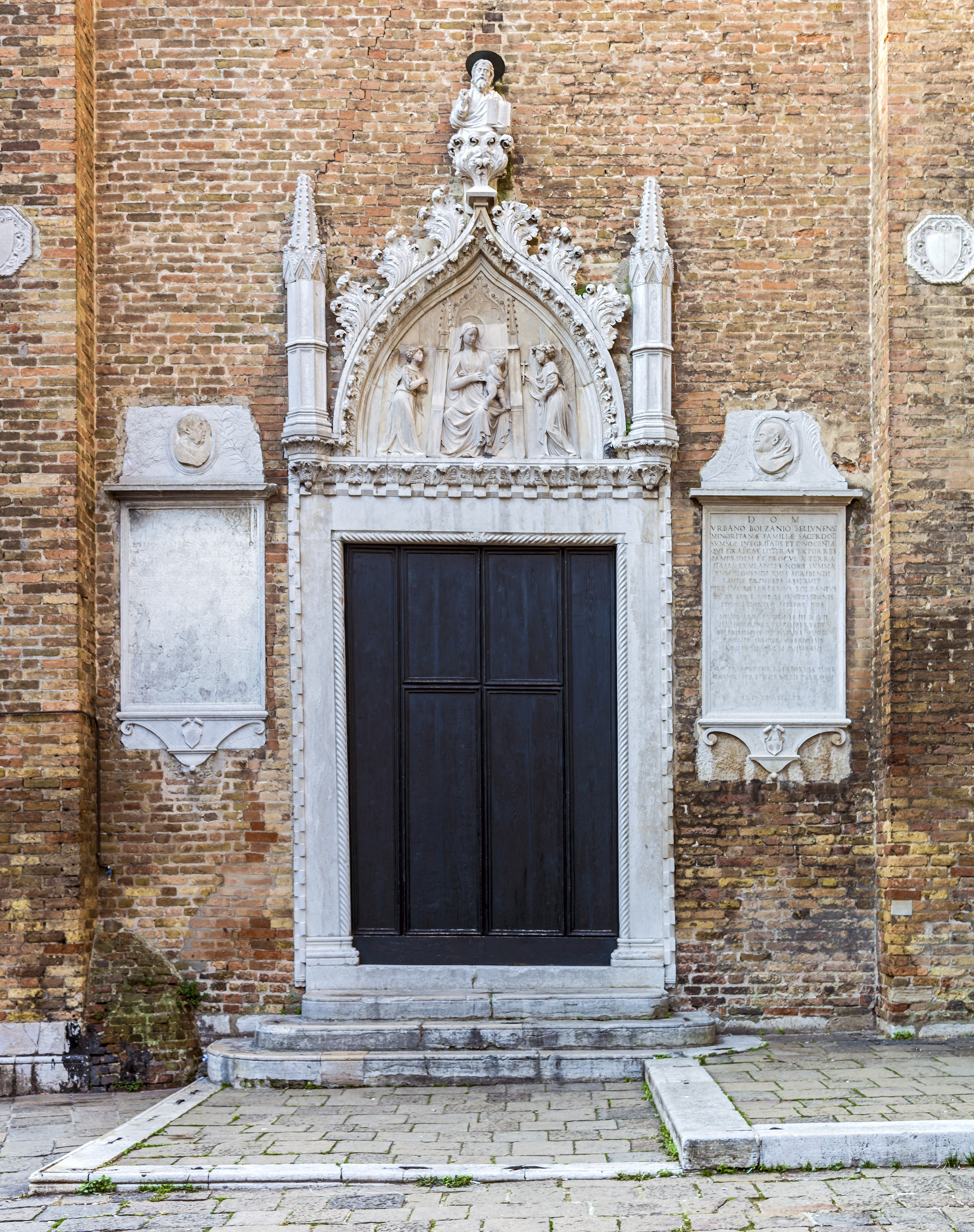 The Basilica di Santa Maria Gloriosa dei Frari, usually just called the Frari in Venice. Gothic portal of the chapel Corner by Giovanni Bon. On the right side tombstone of Pierio Valeriano and on the left that of his uncle Urban Bolzanio humanist and Hellenist of the sixteenth century.